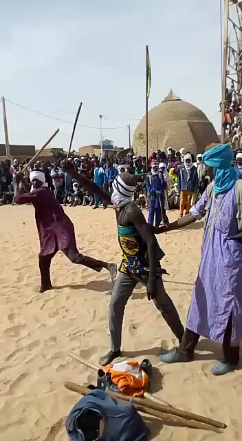 Français cadien: Au Niger on appelle cette activité culture :'charow This is an image with the theme "Play" from: Niger